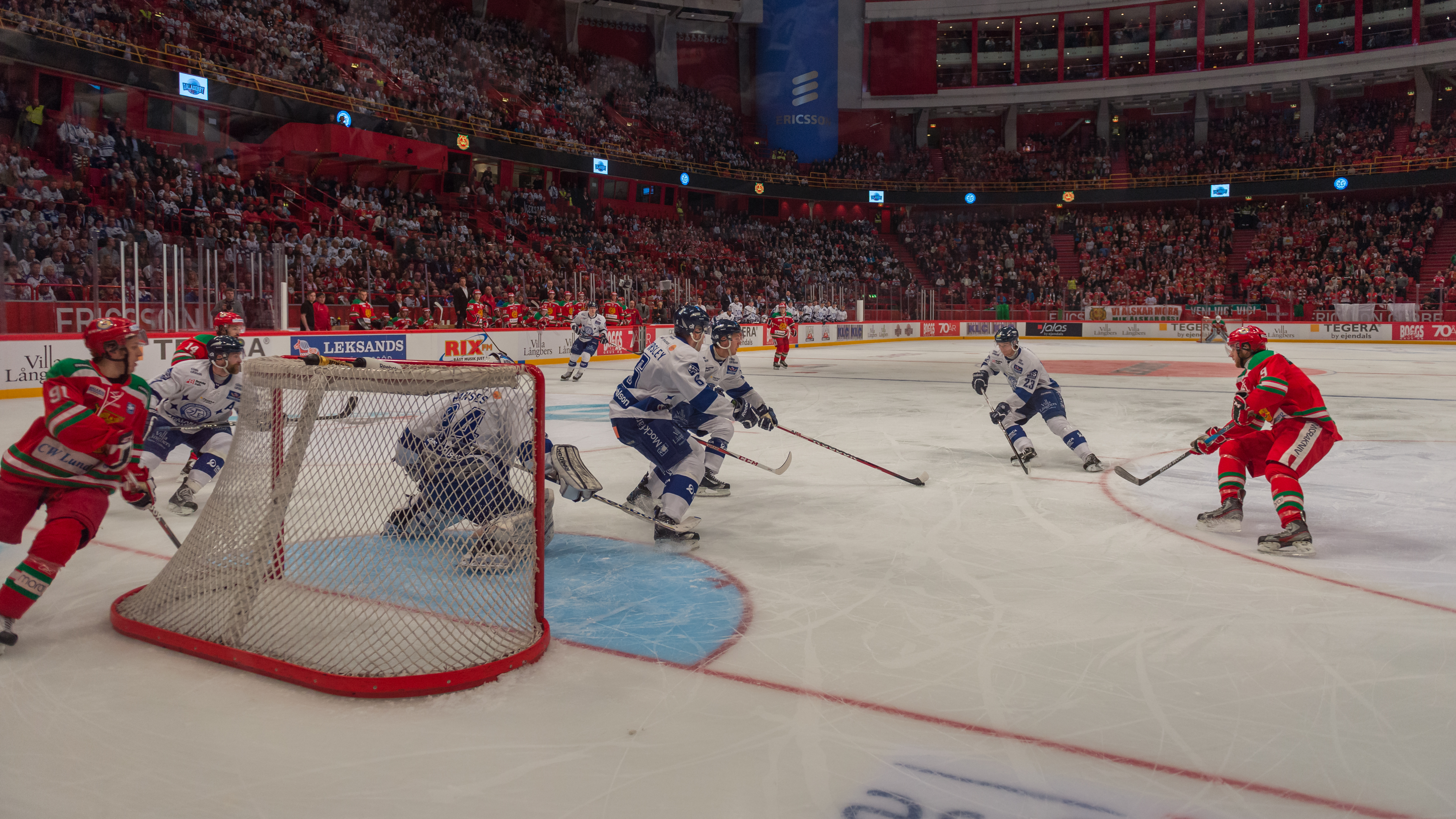 Match between Leksand (blue/white) and Mora (red) in Hockeyallsvenskan (Swedish second league), Stockholm 2013-01-05